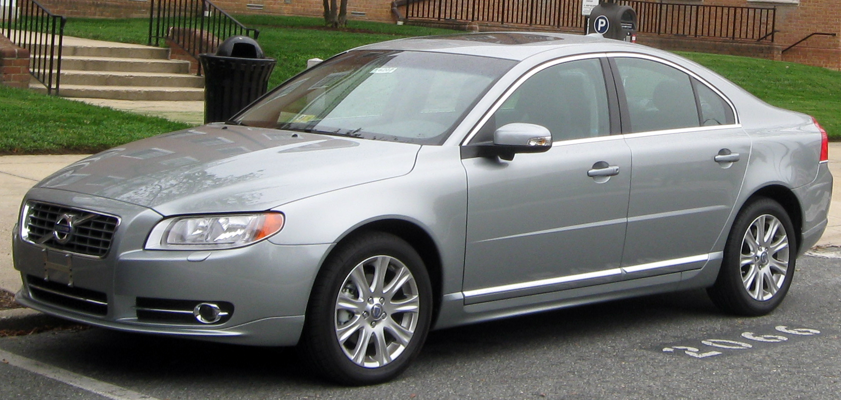 Volvo S80 photographed in College Park, Maryland, USA.